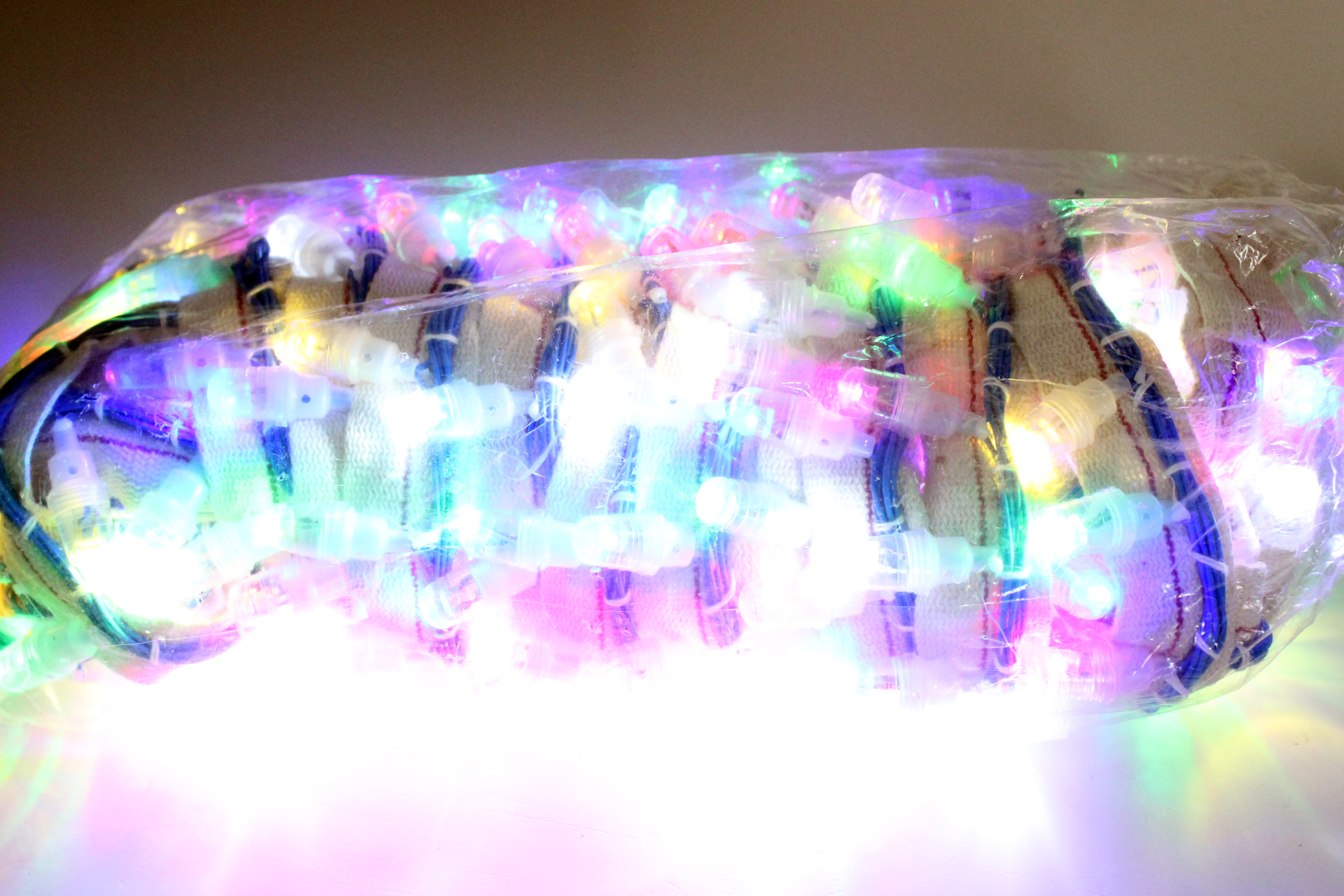 Decorative LED Series Lights Made in India